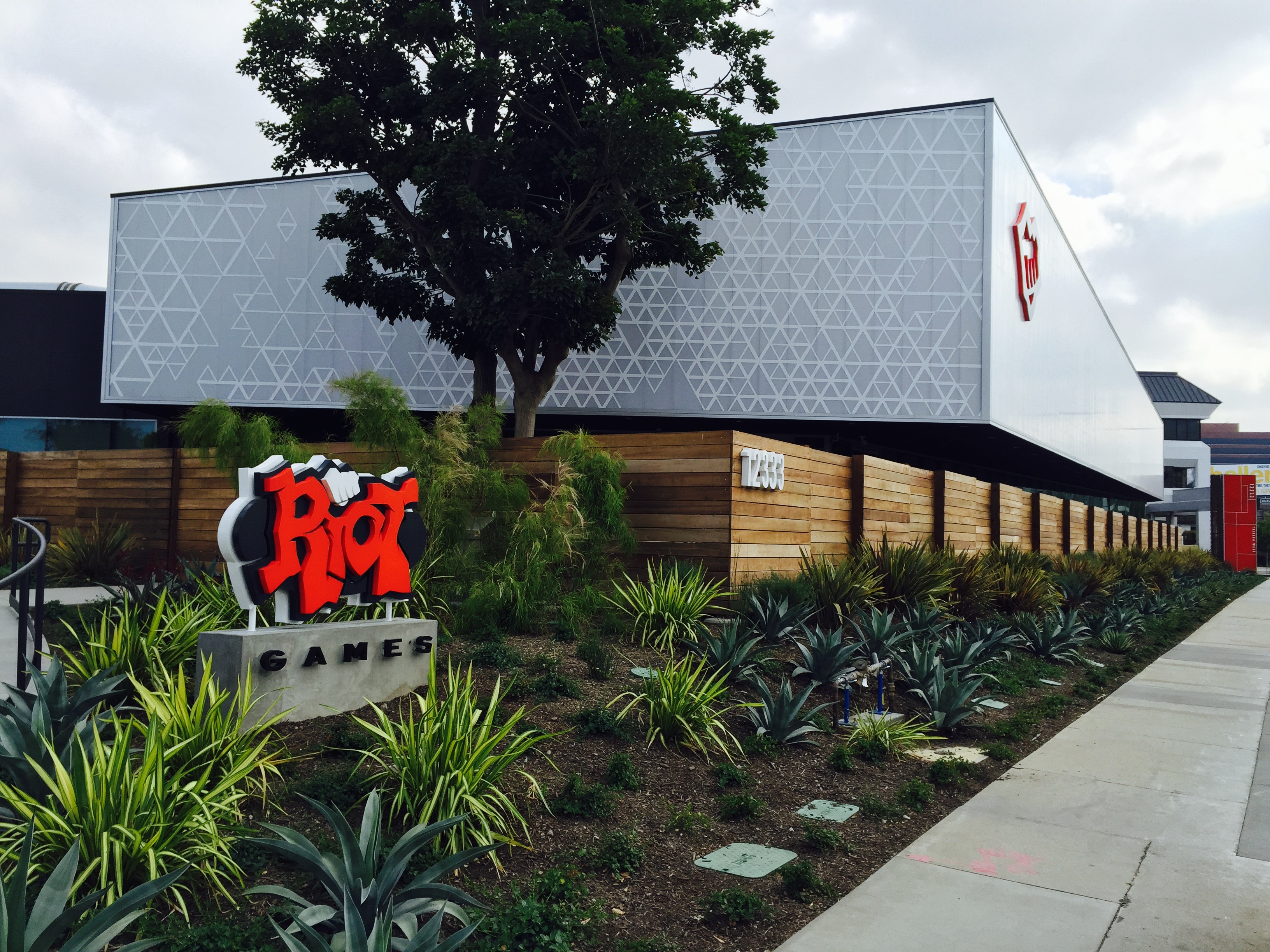 Riot Games headquarters in West Los Angeles.